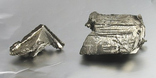 Ytterbium pieces